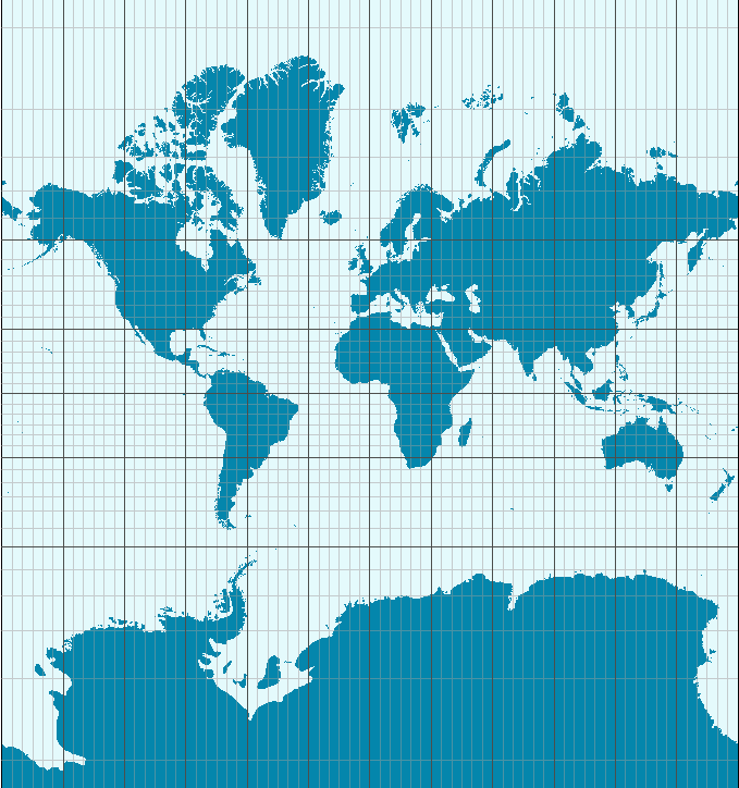 World map in Mercator style projection.